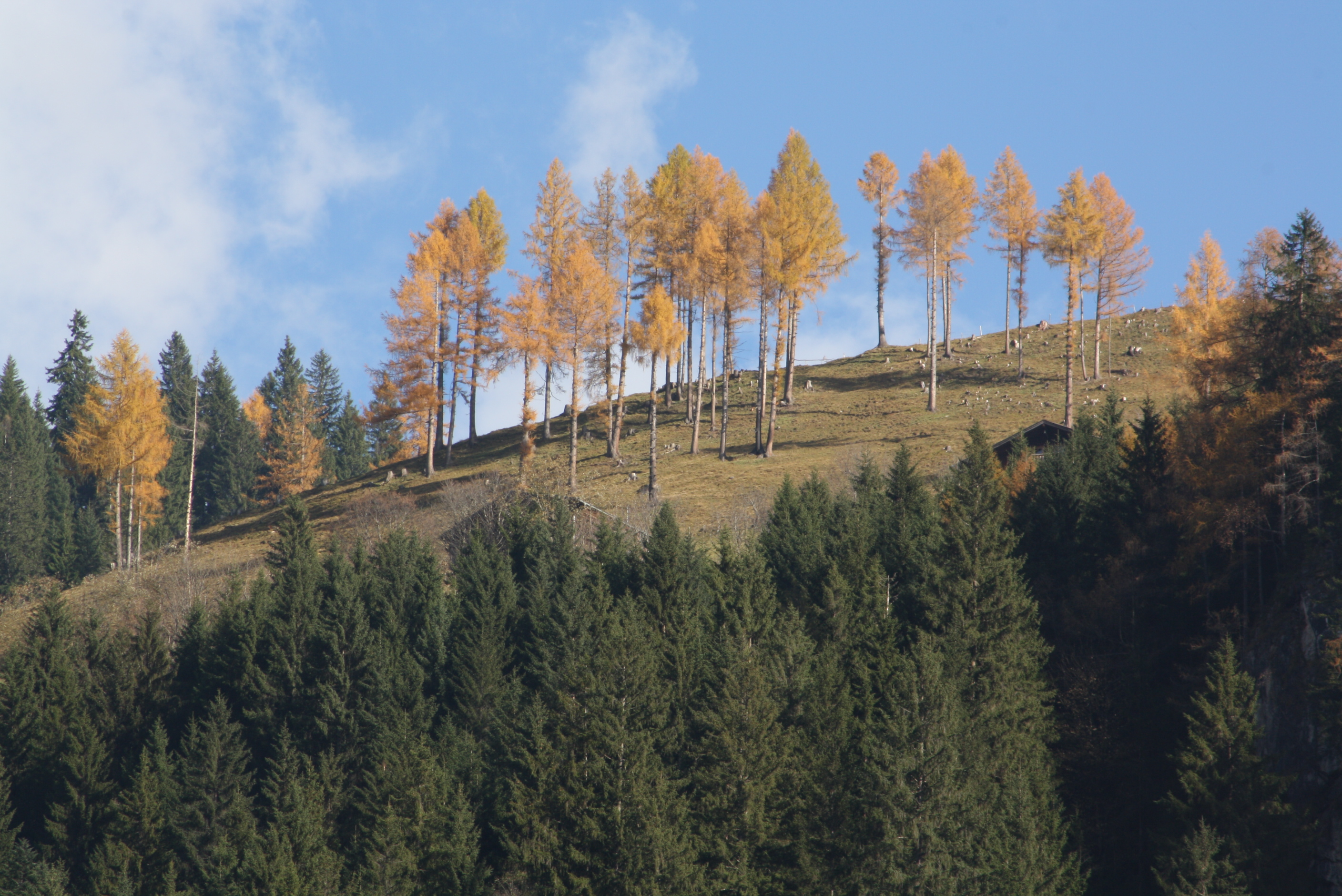 Mountains at Großarl.